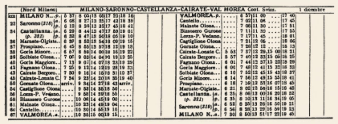 Valmorea railway timetable - 1933